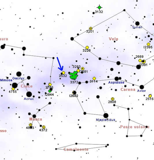 NGC 3532